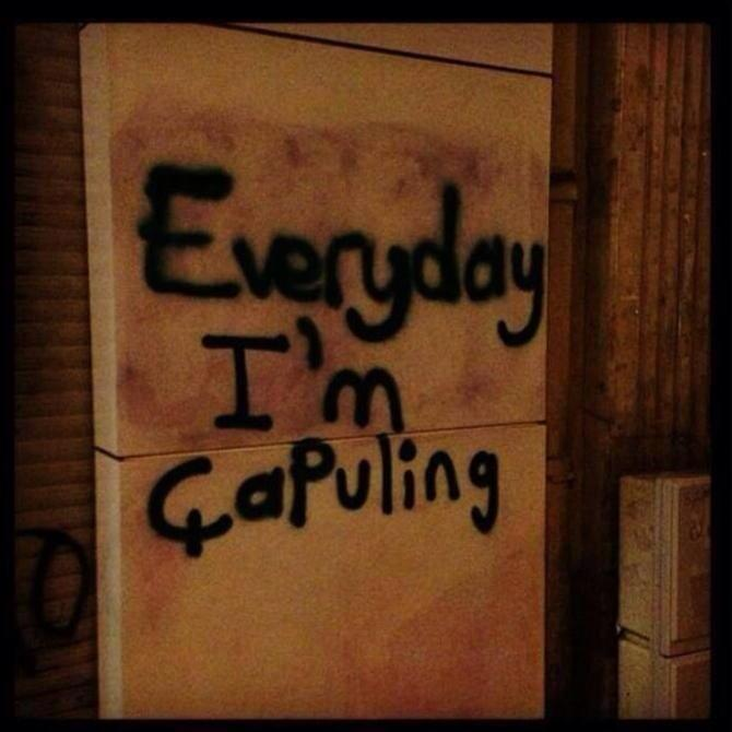 A photo from the chappuling day in Turkey.